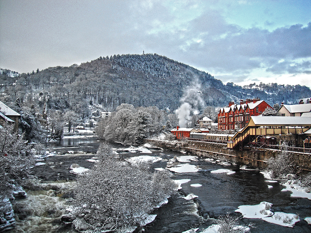 Llangollen during the 2010 Freeze.